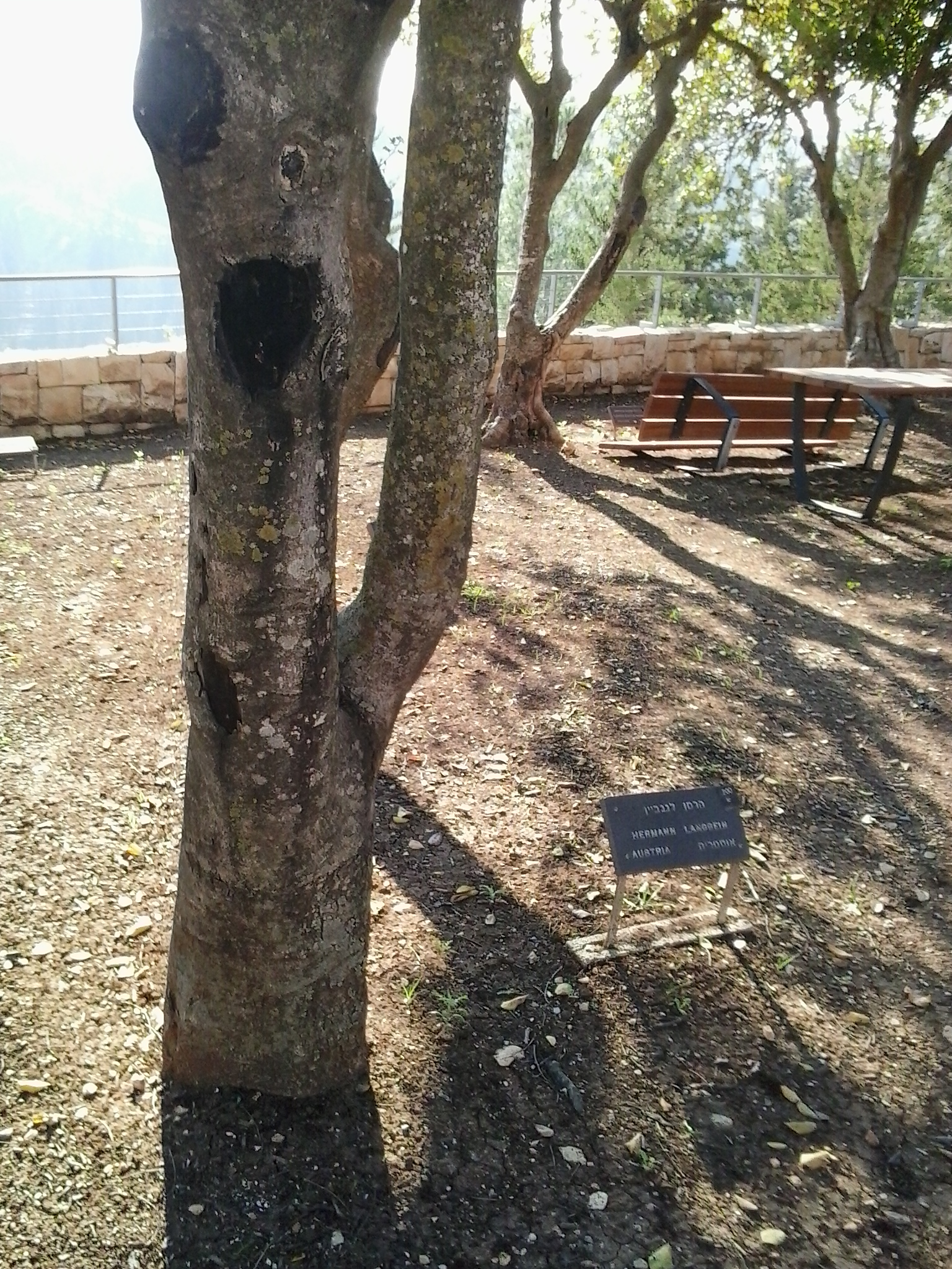 The tree planted at Yad Vashem honoring Righteous Among the Nations Hermann Langbein